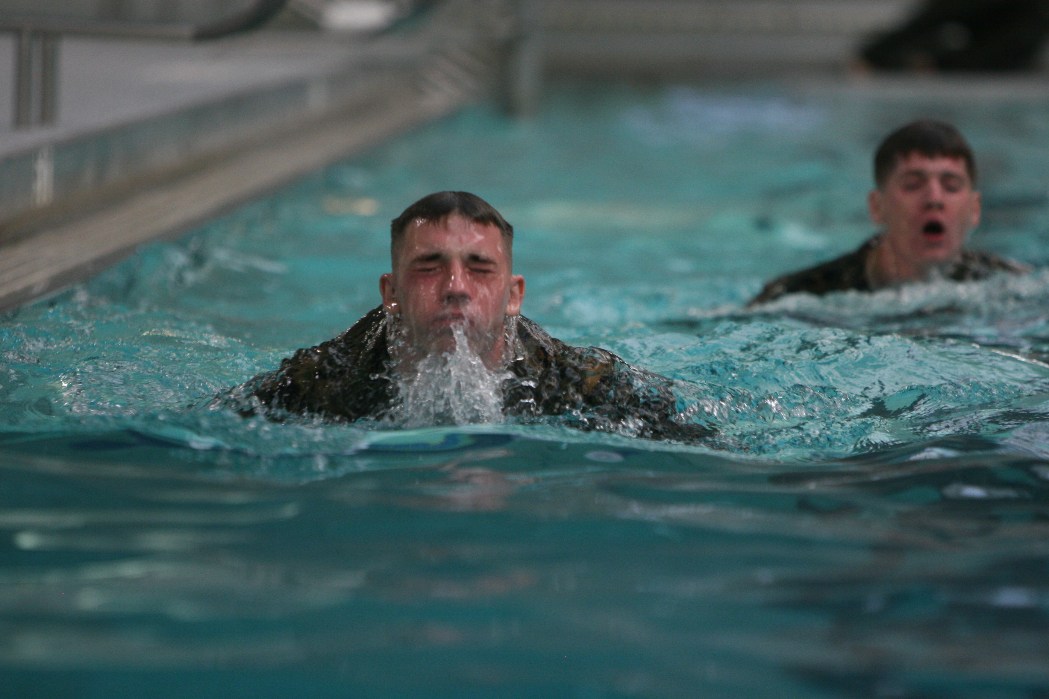 Marines in U.S. Marine Corps Forces, Special Operations Command's new Assessment and Selection Preparation and Orientation Course (ASPOC) conduct a 300 meter swim. ASPOC is designed to prepare MARSOC Critical Skills Operator candidates for the challenges of Assessment and Selection.